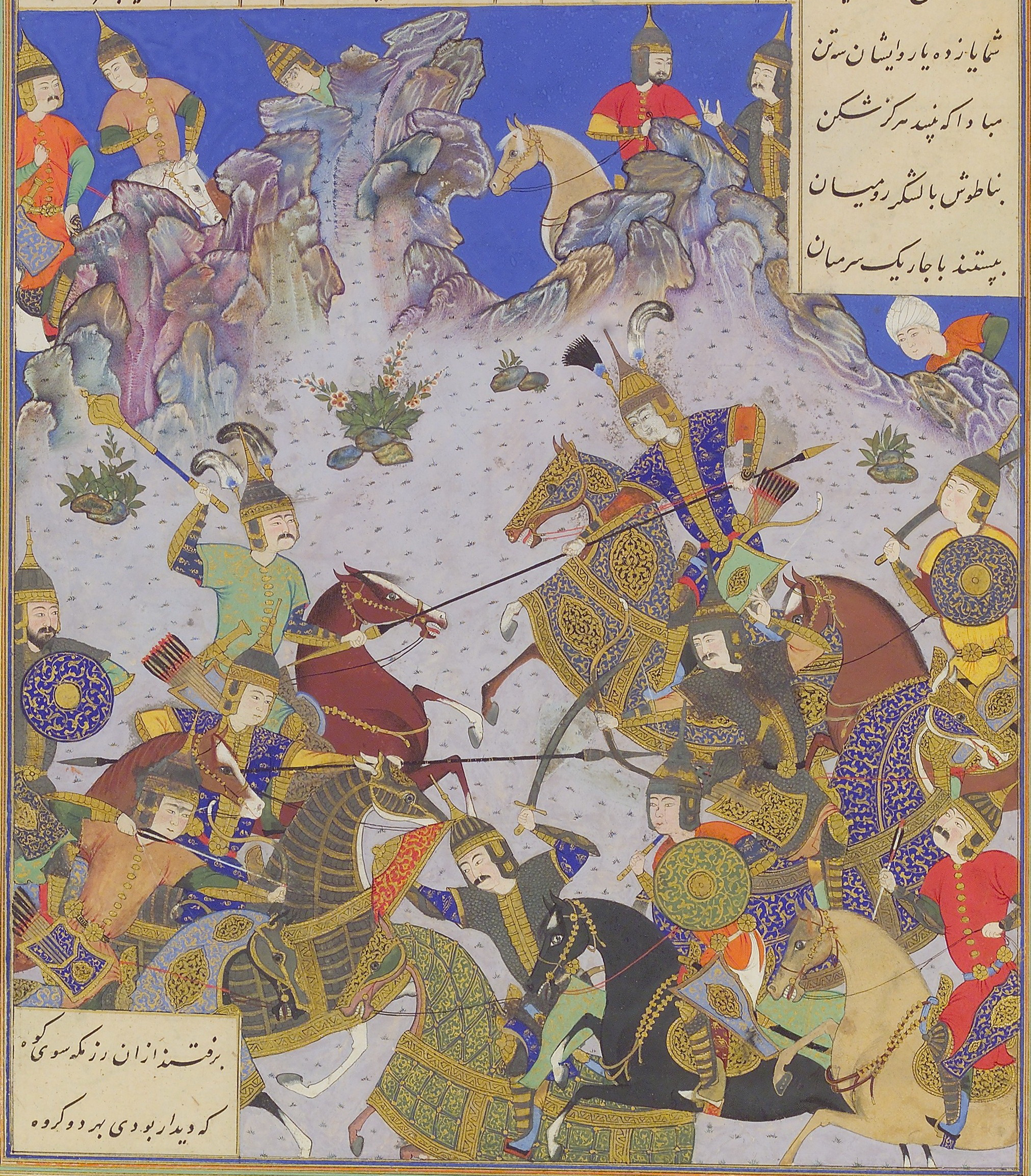 "The Fifth Joust of the Rooks: Ruhham Versus Barman", Folio 342v from the Shahnama (Book of Kings) of Shah Tahmasp